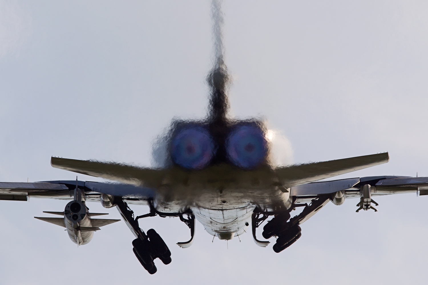 The rear of a Tupolev Tu-22M3